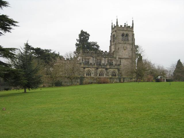 Holy Trinity chapel, Staunton Harold, Leicestershire, built in 1653 during the Commonwealth of England